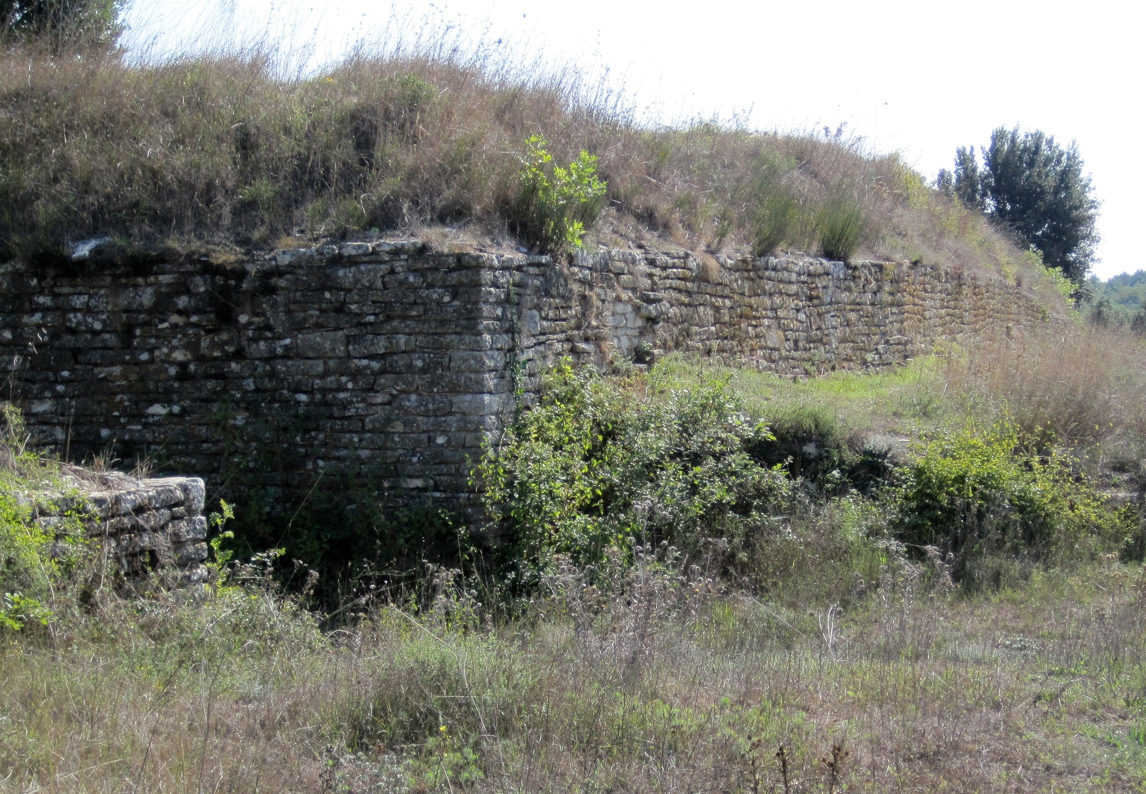 ancient entrance to Nesacium, Istria, west side, nothern gate.